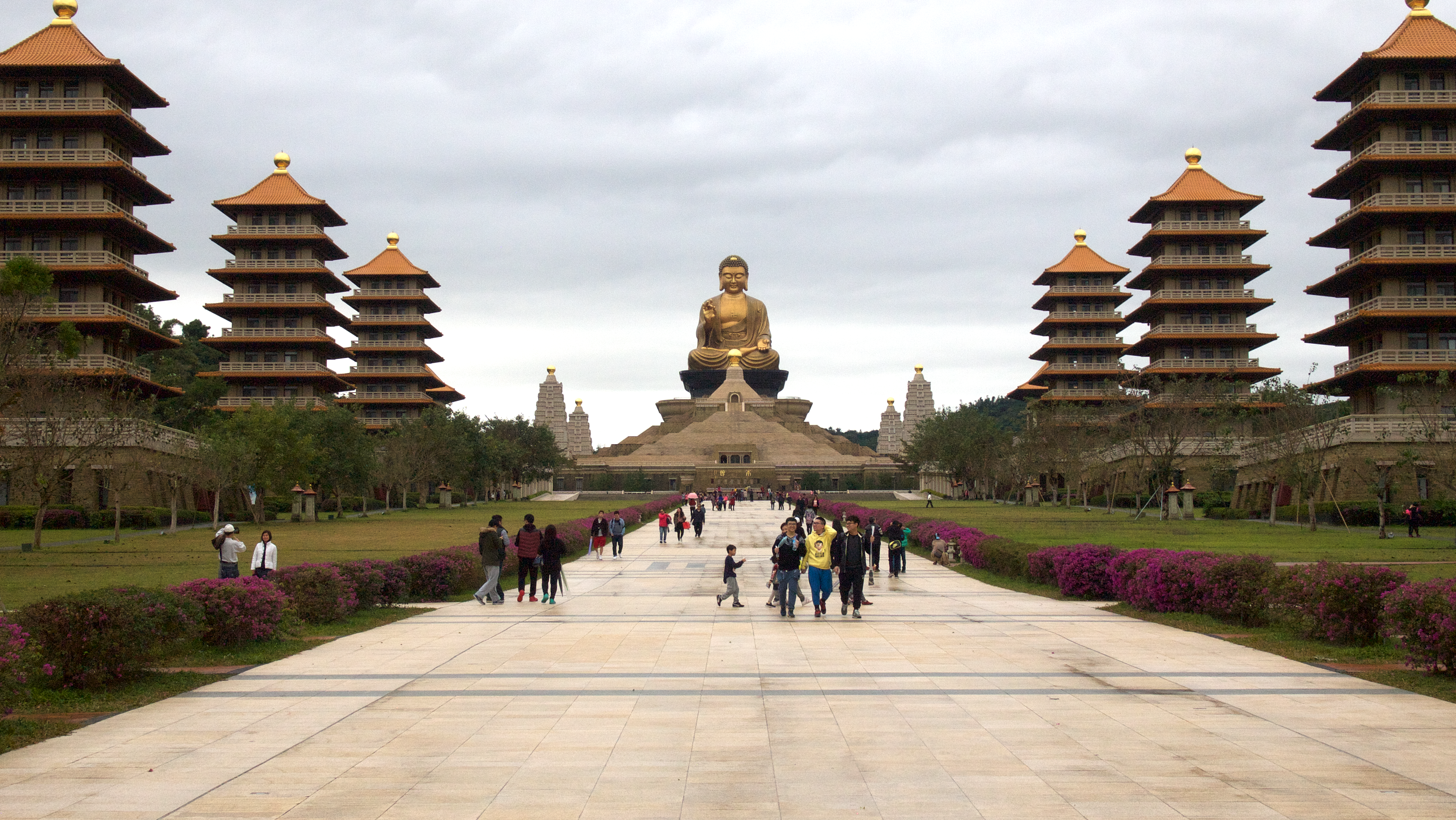 Main Buddha statue at Fo Guang Shan Buddha Memorial Center.